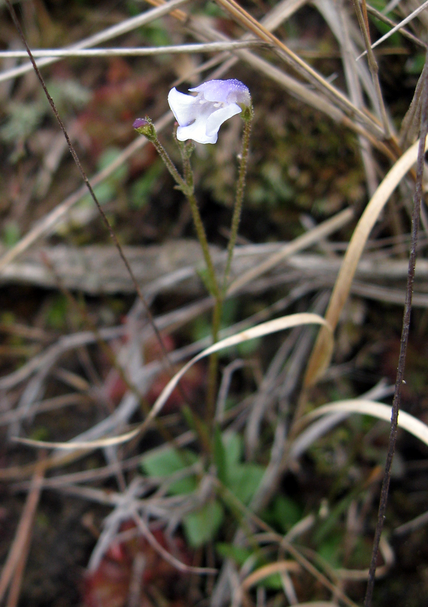 Lindernia monticola, seeping granite outcrop in Poe Creek Forest, Pickens County, South Carolina